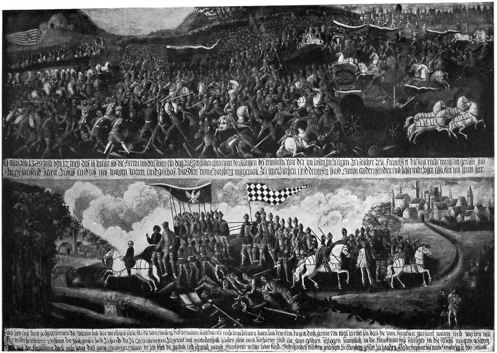 Frankfurt on the Main: the battle at Eschborn between armed forces of the city of Frankfurt on the Main and the knights of Kronberg and their allies in 1389